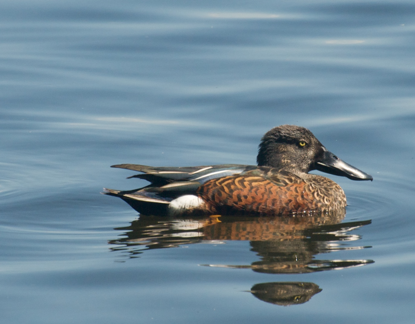 Australasian Shoveler, seen at Lake Monger.